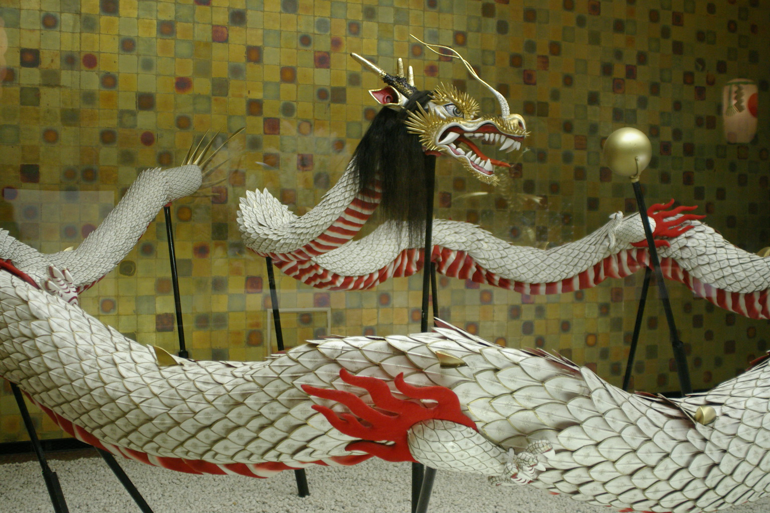 Cloth dragon used for festivals in Nagasaki, Japan